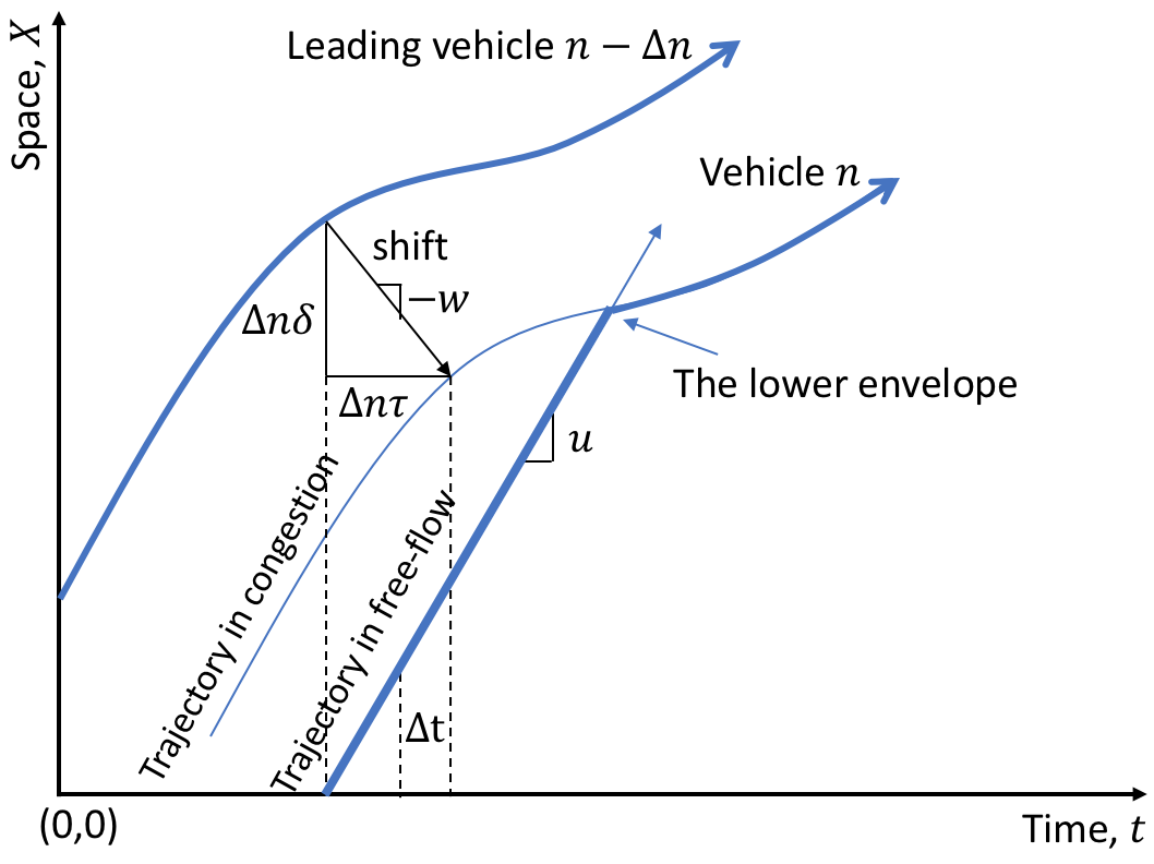 Figure 30.